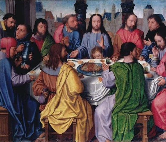 Last Supper (1530-1537) by an anonymous disciple of Gerard David; It is part of the Polyptych of Esporão Chapel (Cathedral of Évora) and now is on display at Museu de Évora, Portugal.